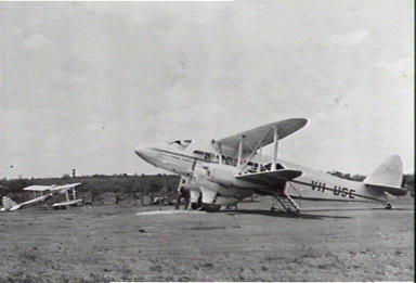 Qantas de Havilland DH86, VH-USE, Queensland Winton.